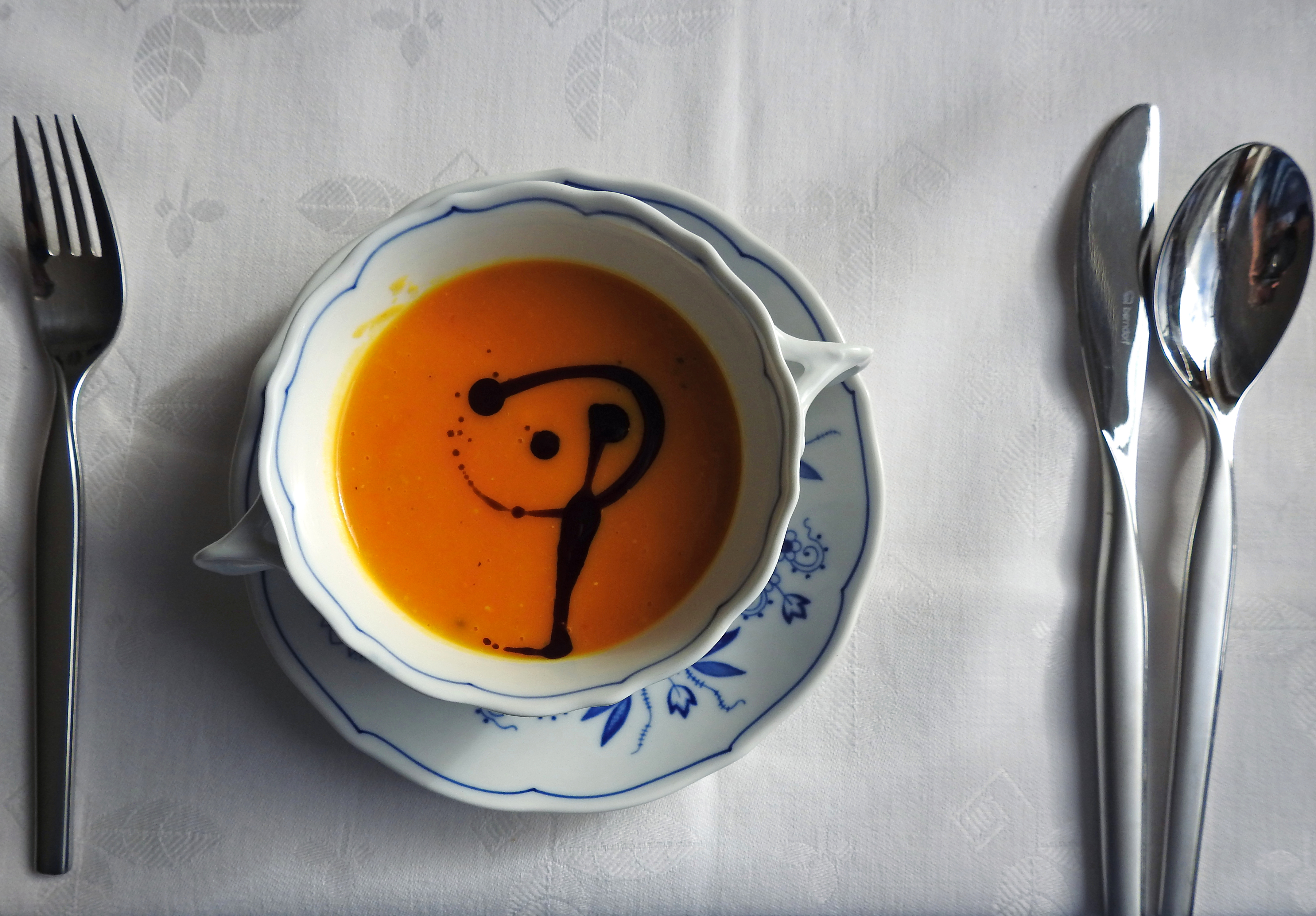 Soup made of Hokkaido pumpkin with oil made of Styrian (Styria, Austria) pumpkin seeds.